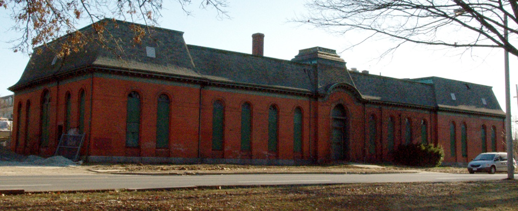 A photograph of the historic Mystic Water Works in Somerville, Massachusetts.